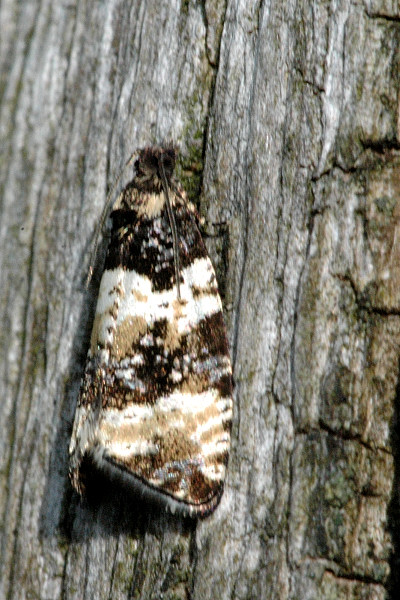 Picture taken in Commanster, Belgian High Ardennes . Species: Orthotaenia undulana